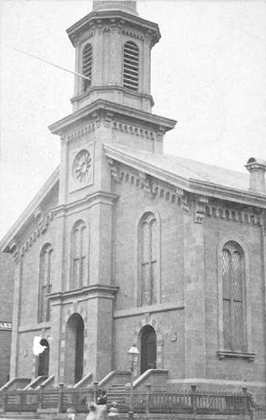 North Presbyterian Church, 374 Ninth Avenue, at the northeast corner of 31st Street, New York City. (For street address, see: "Detroit Pastor Chosen". New-York Tribune. November 15, 1900. p. 2 col. 3.) Demolished in 1903 for construction of Pennsylvania Station. Caption reads:Dr. Hatfield's Church, Ninth Avenue, cor. Thirty-first Street. Entd. according to Act of Congress, in the year 1863, by G. Stacy, in the Clerk's Office of the Dis. Court of the U. S. for the S'rn. Dis. of N. Y.Border reads:Stacy. 691 B'way. George Stacy was a prominent Civil War photographer who had an office at 691 Broadway. See: H. Wilson, compiler. Trow's New York City Directory. Volume 78 (year ending May 1, 1865) (New York: John F. Trow). p. 837, "STACY GEORGE, photographer, 691 B'way".